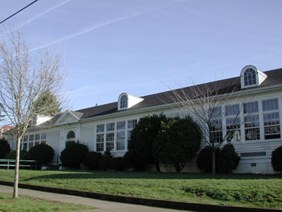 Alameda Elementary School in Portland, Oregon, United